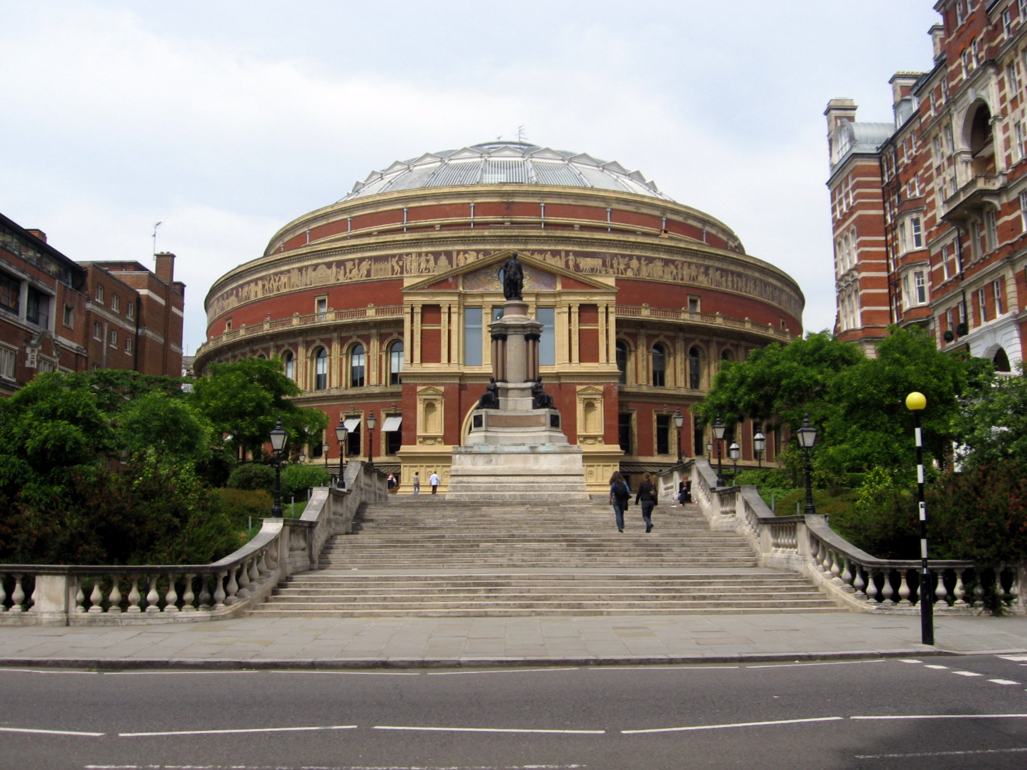 Royal Albert Hall, London, from Prince Consort Road. The steps lead to the Joseph Durham's 1863 Memorial to the 1851 Exhibition, which is topped by a statue of Prince Consort Albert.